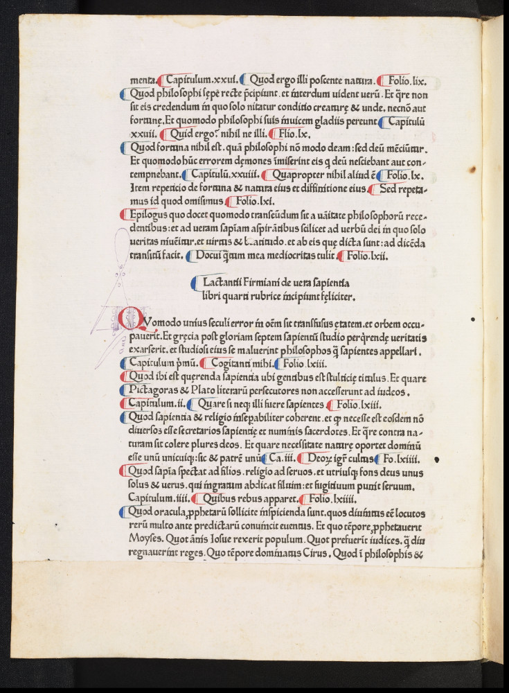 Page from the Opera of Lactantius. Imprint: Subiaco: [Conradus Sweynheym and Arnoldus Pannartz], 29 Oct. 1465. Copy held by the Bodleian Library and scanned by the Polonsky Foundation Digitisation Project. Shelfmark: Auct. L 3.33. Folio [*3]v Provenance information